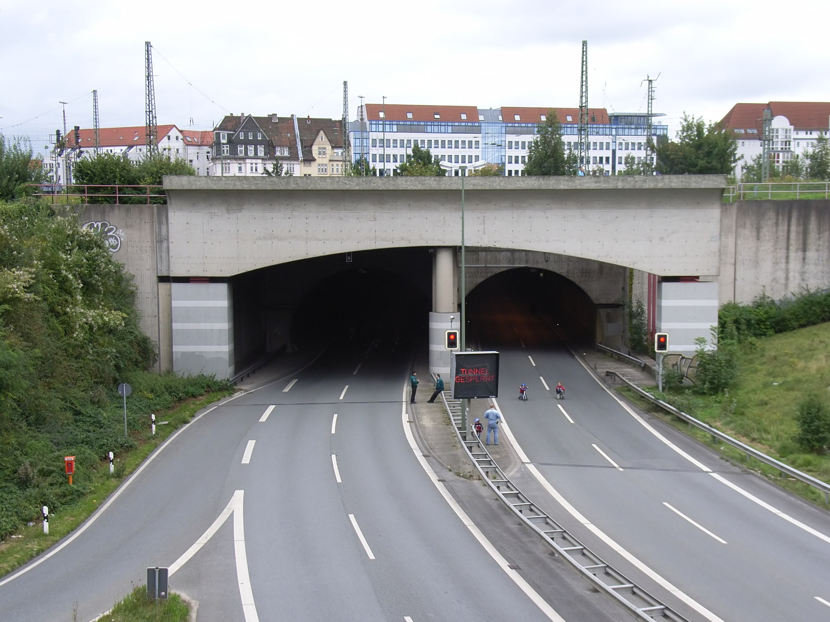 Bielefeld, Germany: Western gateway of the Ostwestfalentunnel.